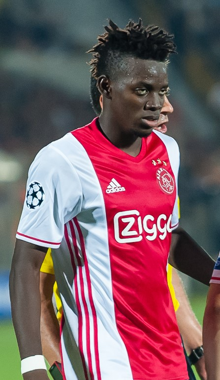 Bertrand Traoré